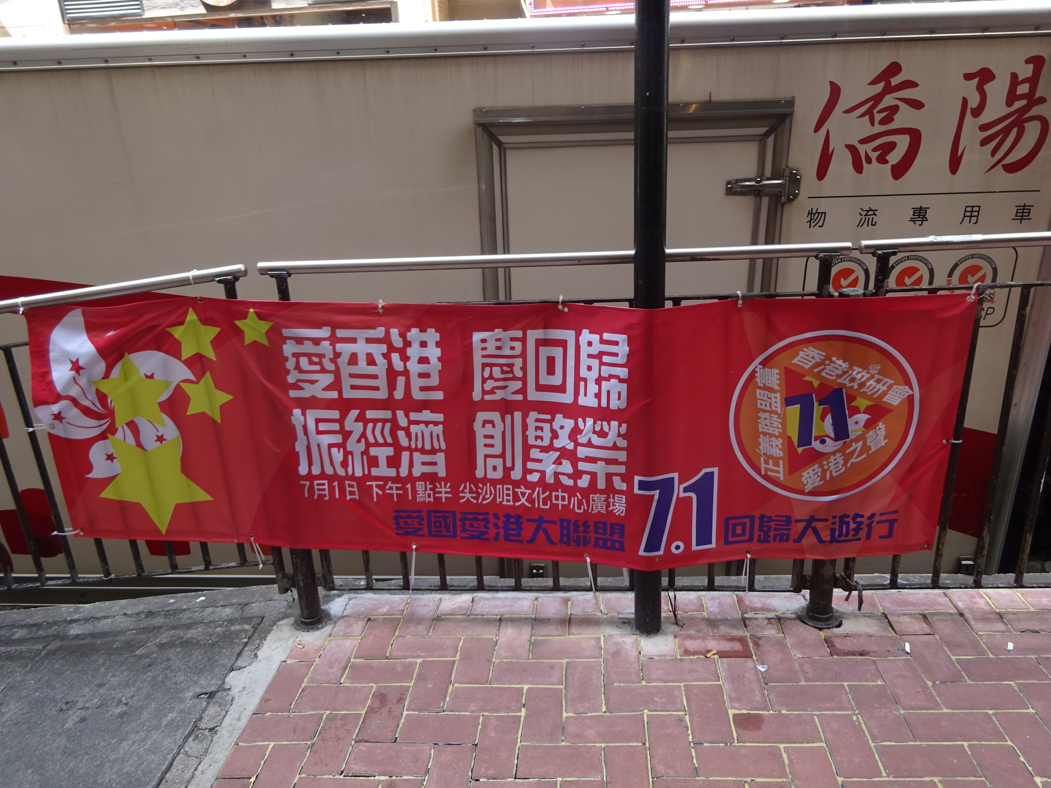 HK Sheung Wan Wing Lok Street fence red banner 愛港之聲 Voice of Loving Hong Kong VLHK 7-1 event TST in July 2016